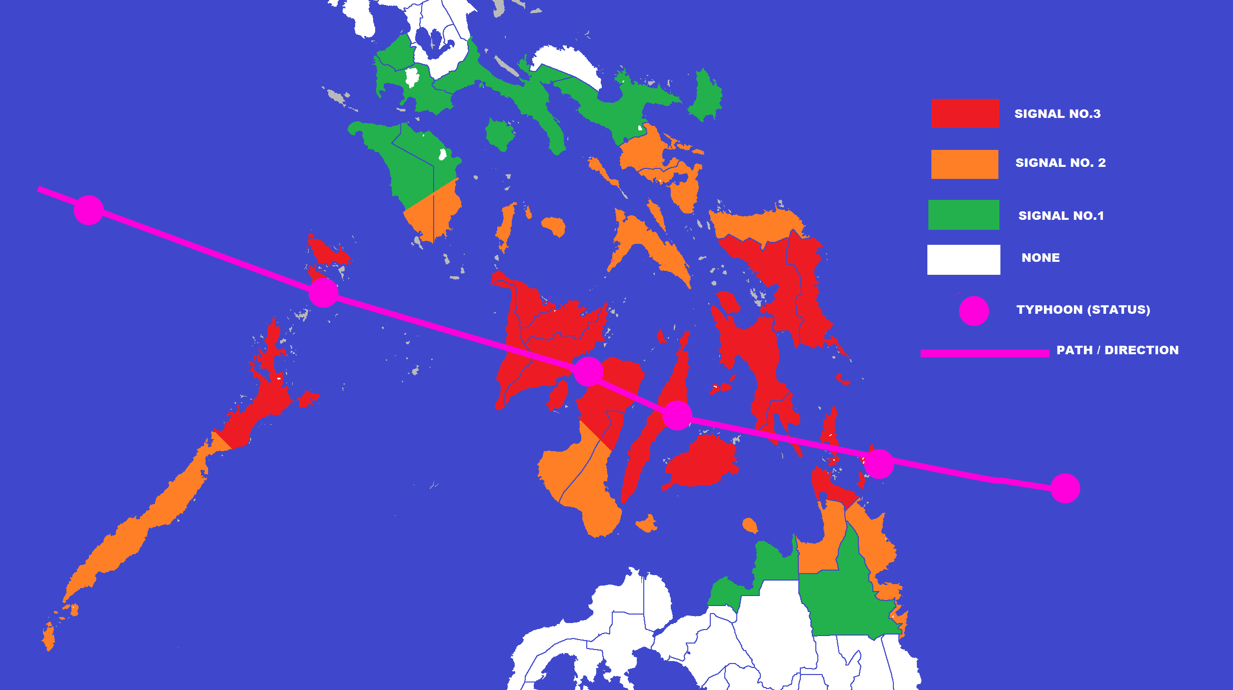 The Public Storm Warning Signal in the Philippines during Typhoon Mike (Ruping) in 1990. The highest storm signal no. raised was #3. No Signal no.4 at that time